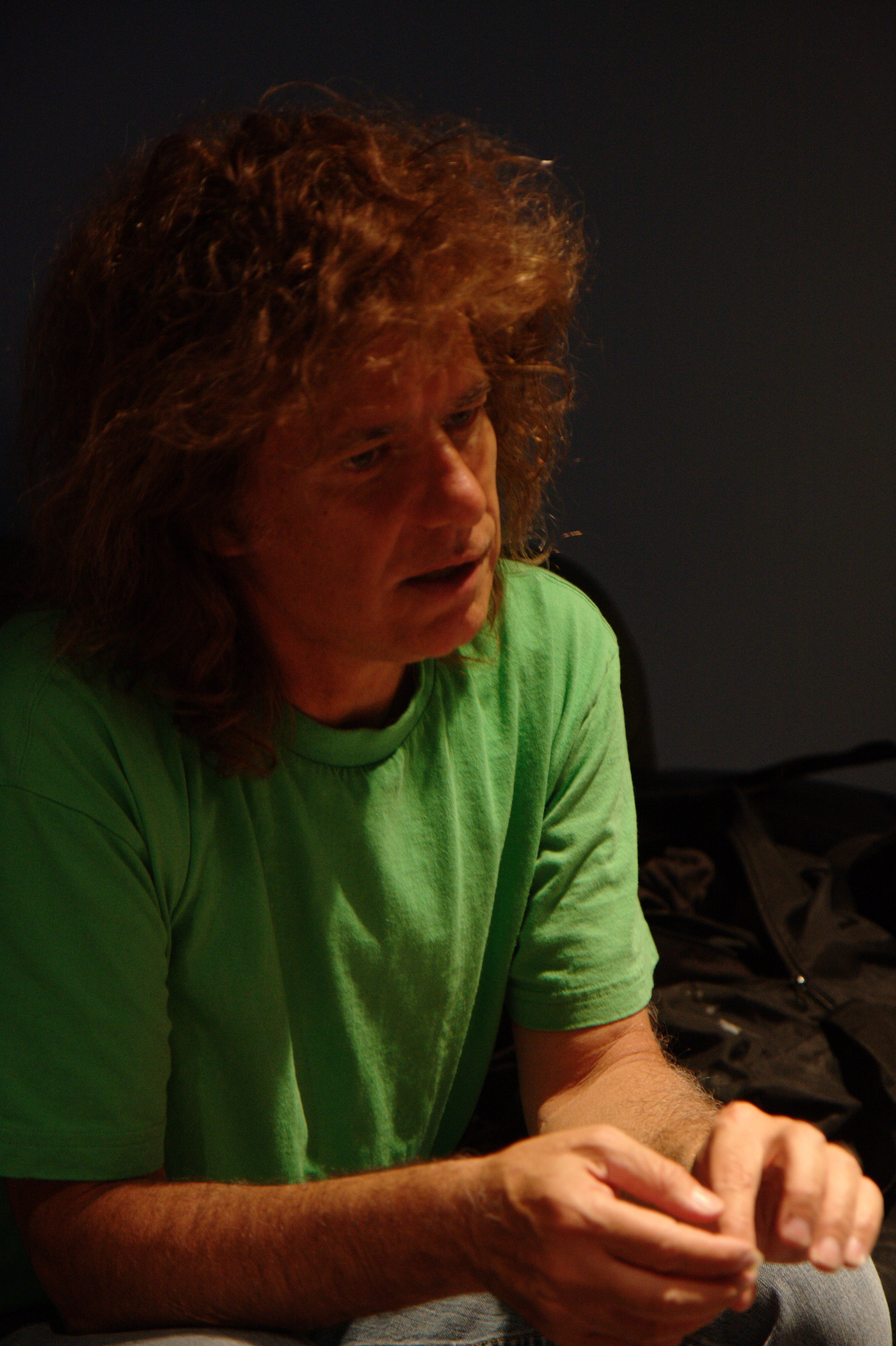 Pat Metheny and the Orchestrion Project at the Nokia in Grand Prairie, Texas on Tuesday, 13 April 2010. Licensing